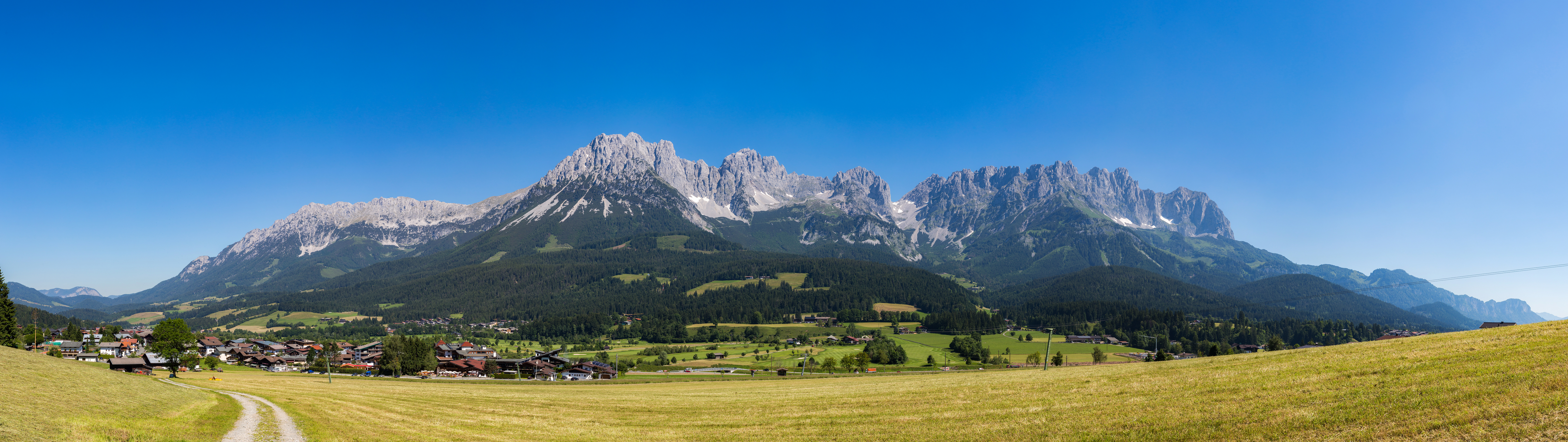 Panorama of Kaisergebirge, Tyrol, Austria. View from south. In the foreground the town of Ellmau can be seen.